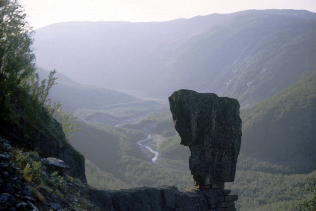 "Katteratgubben" famous 3 meter high rock near Katterat, Near the Ofoten Railroad, Nordland Norway. The river Rombakselva can be seen in the valley.